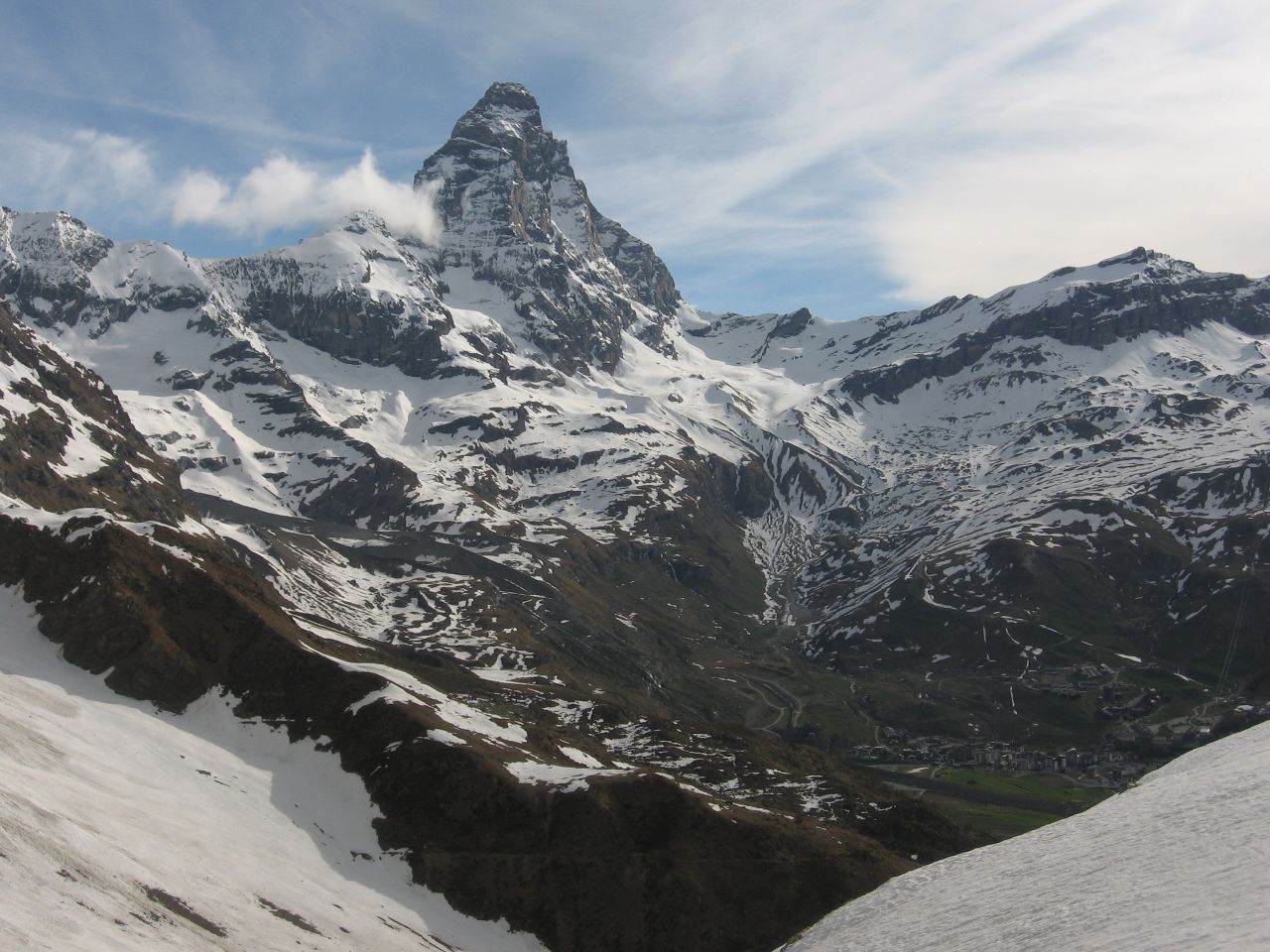 The south side of the Matterhorn